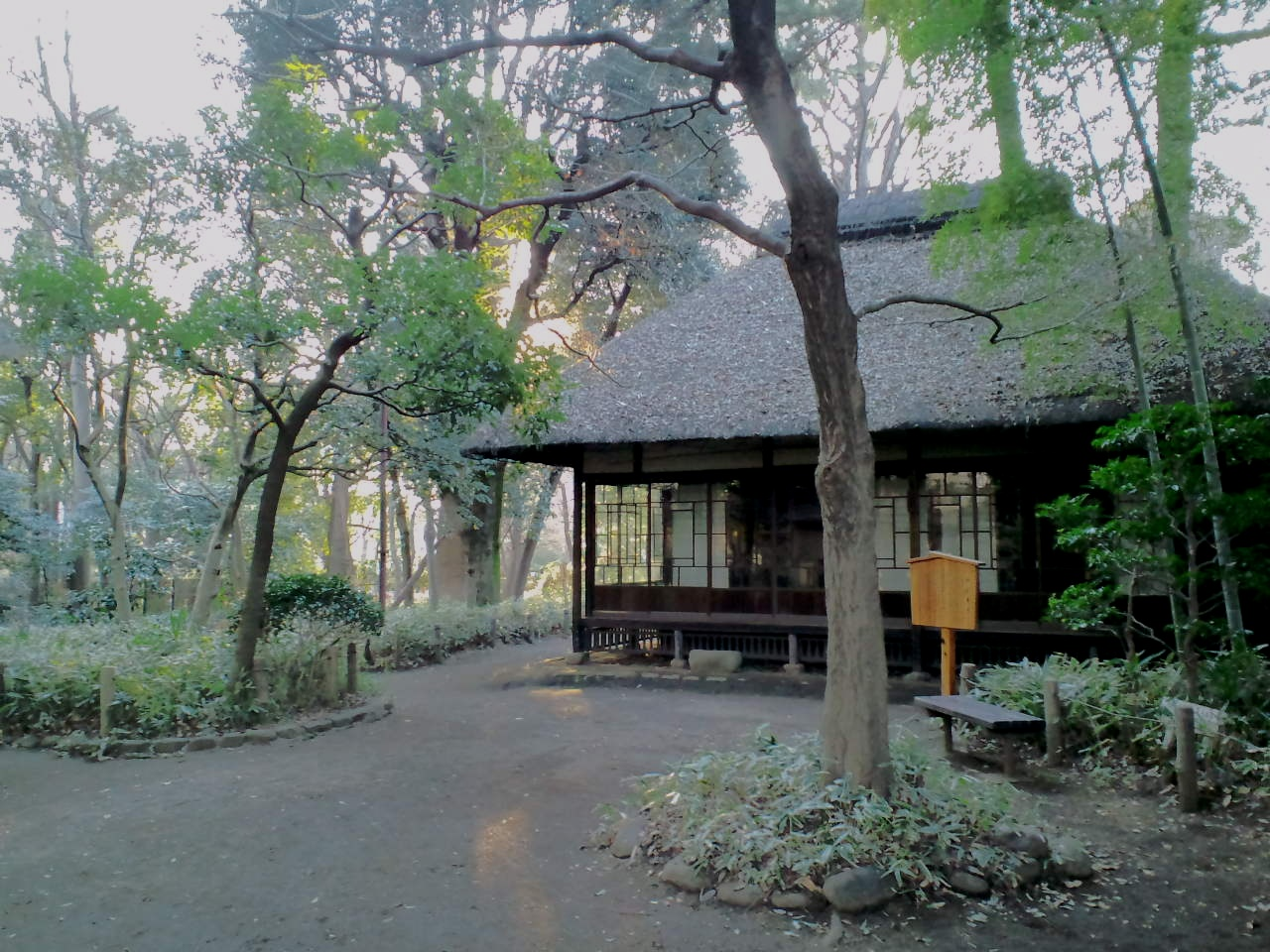 Roka-Kosyuuen park in Setagaya, Tokyo Japan.